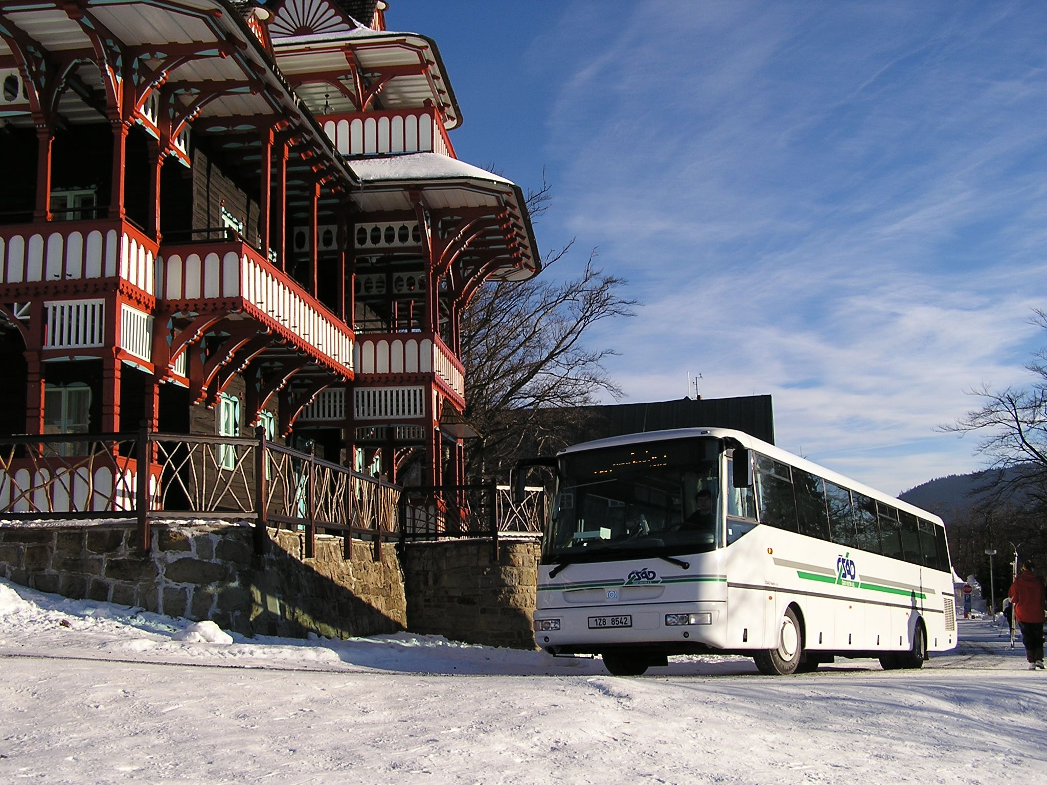 Picture of the bus of ČSAD Vsetín at the Pustevny.